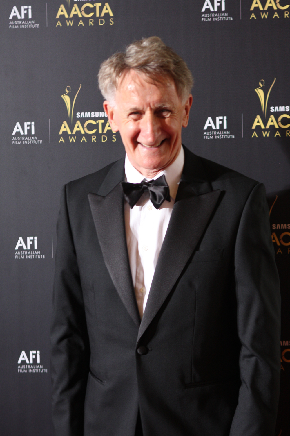 The 1st AACTA Awards were presented at the Sydney Opera House on 31 January 2012. The ceremony was preceded by a luncheon at the Westin Hotel in Sydney on 15 January 2012.